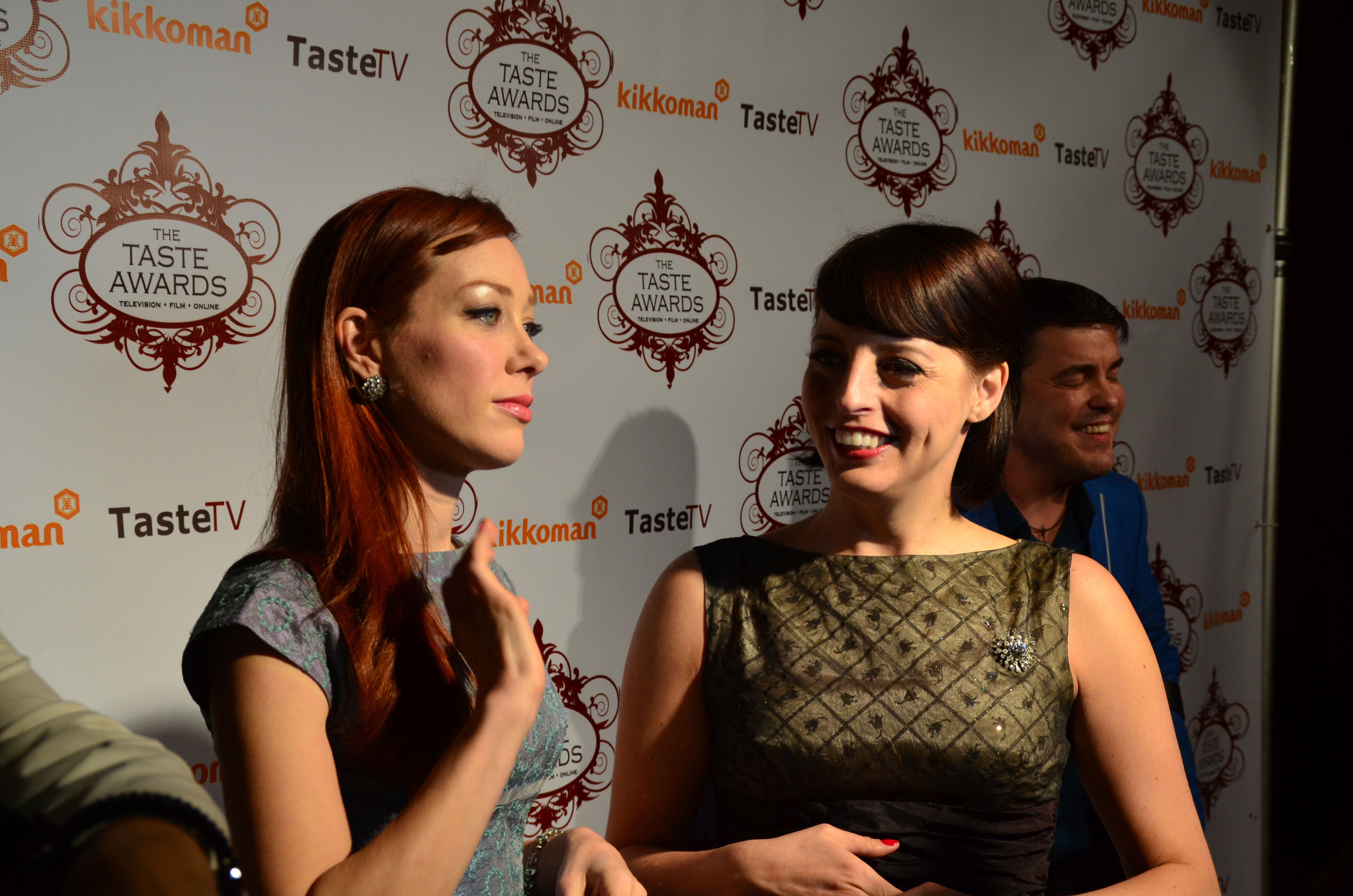 Alie Ward & Georgia Hardstark at the 6th Annual Taste Awards honoring the best in food and wine at the Egyptian Theater in Hollywood.